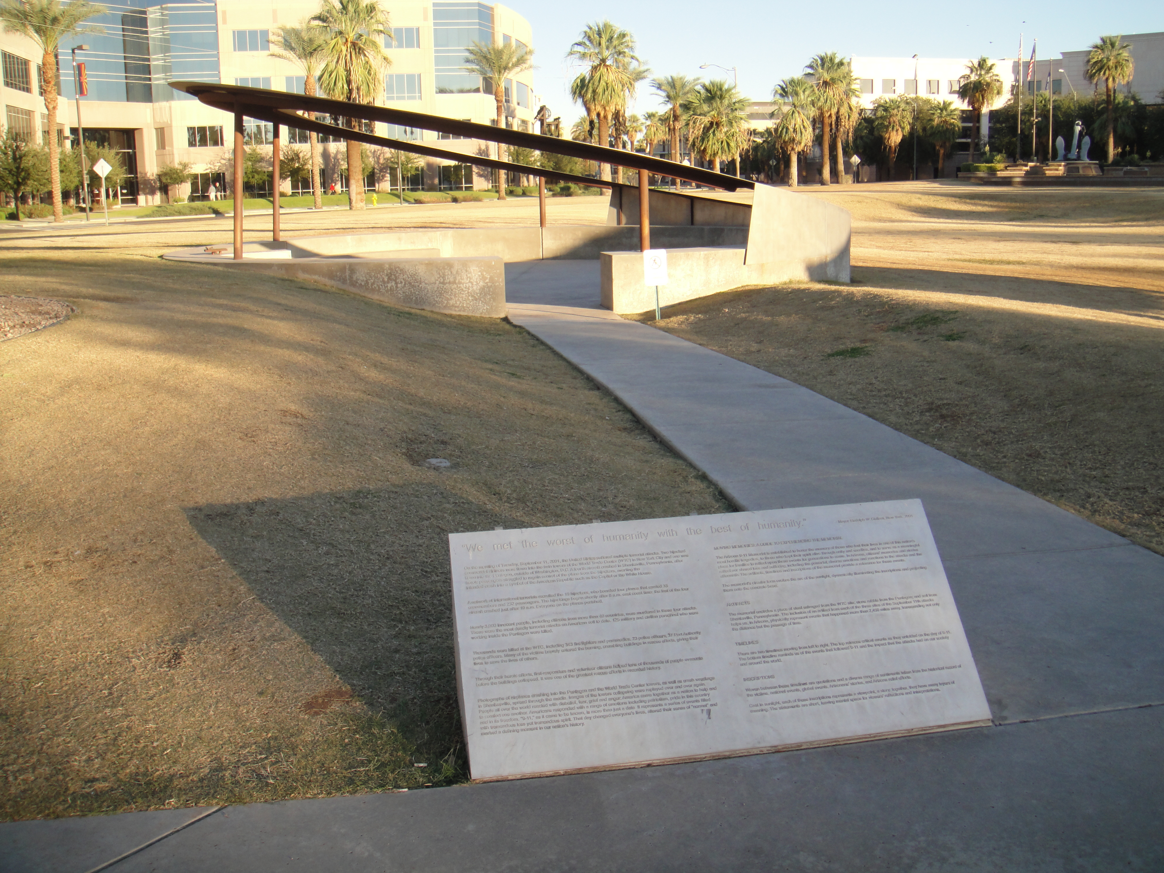 The Arizona memorial dedicated to the victims of the attacks on September 11, 2001